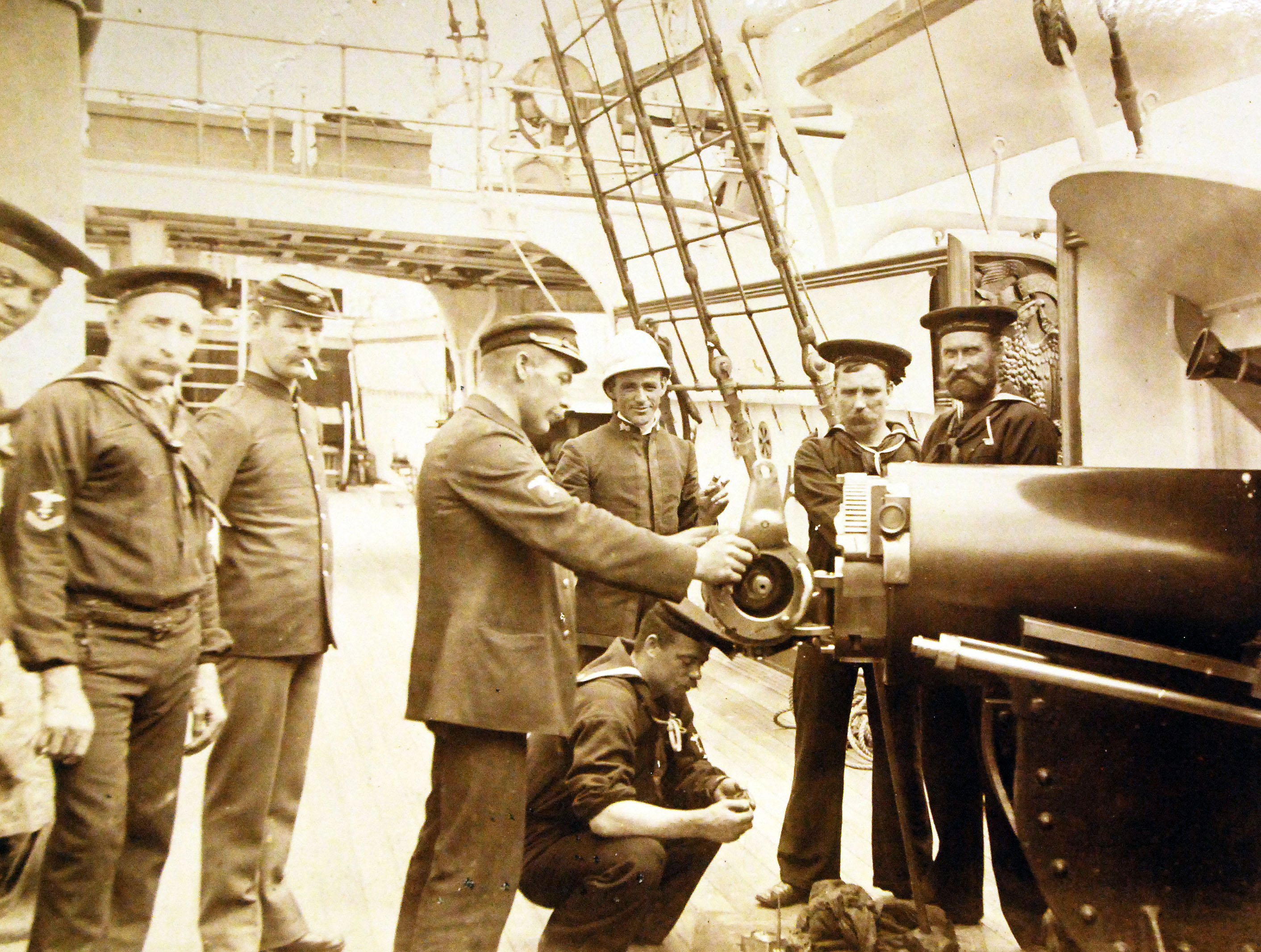 Lot 3000-G-1: U.S. Navy protected cruiser USS San Francisco (C-5), cleaning 6” gun. Detroit Publishing Company, 1890-1912. Courtesy of the Library of Congress. (2016/03/25).